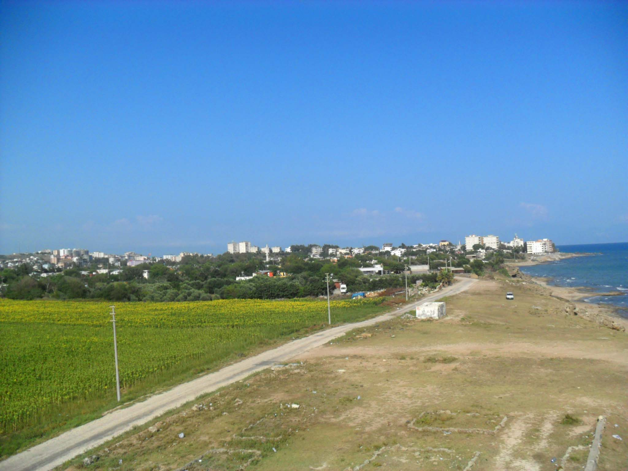 Yumurtalık, Adana Province, Turkey seen from the Süleyman's Tower